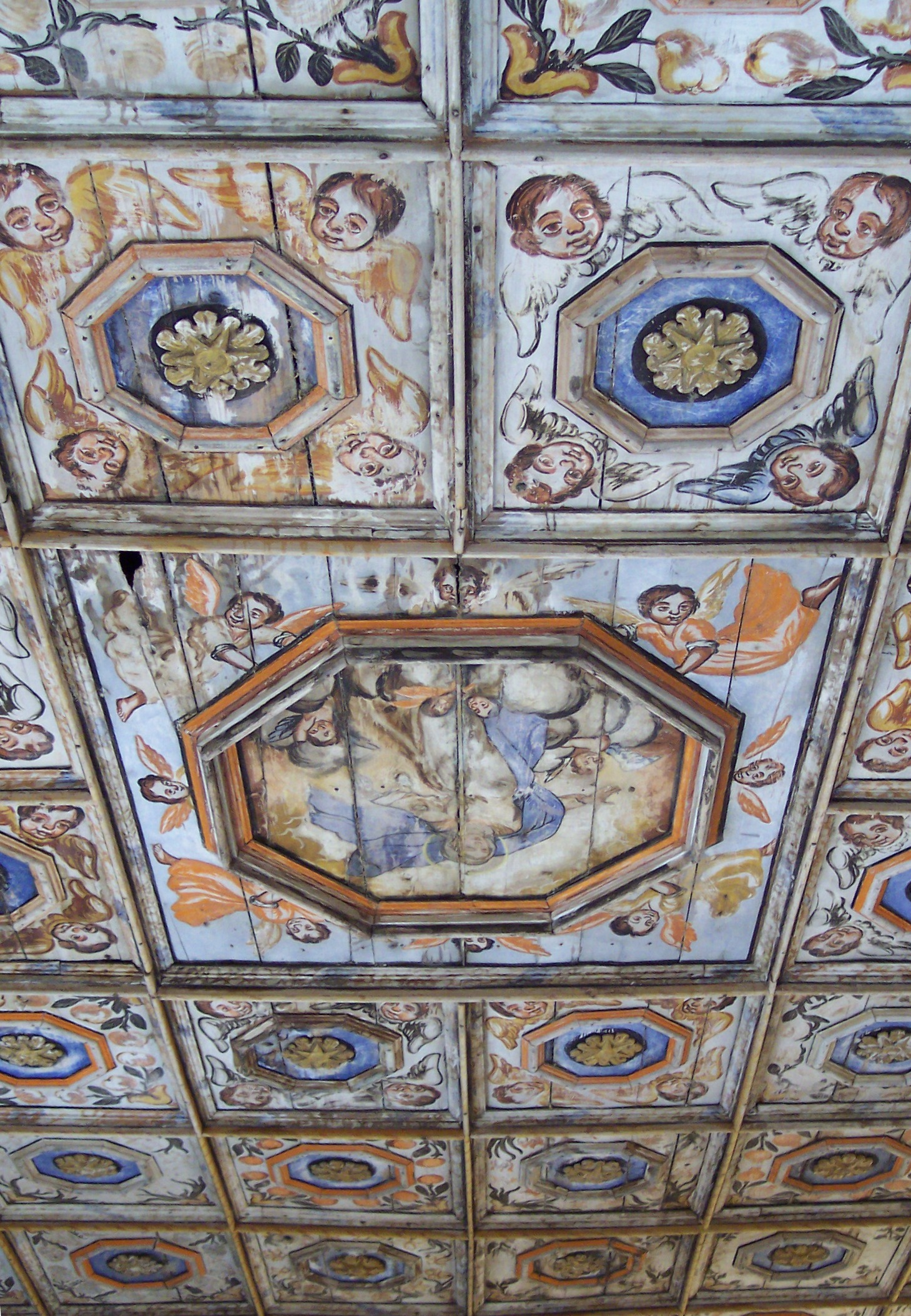 Ceiling of the church of St. Mary in Beram